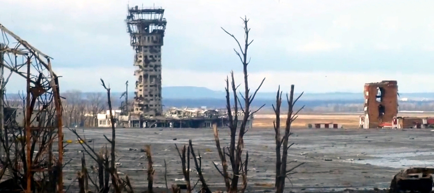 Ruins of Donetsk Sergey Prokofiev International Airport, December 24, 2014.